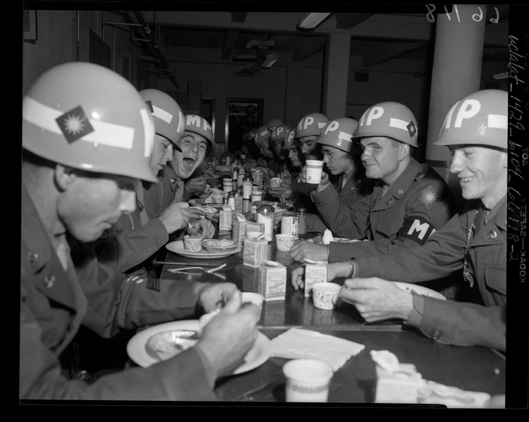 Title: California National Guard MPs at cafeteria table eating, 1950 Published caption: TRAVELING ON STOMACHS--One of the largest troop movements in Southern California in peacetime got under way early yesterday as lead segments of the 40th Infantry Division, including Los Angeles's Own 160th Regiment, left here for training at Camp Cooke. Here MPs "chow down" on chicken pie and trimmings before going. Publication: Los Angeles Times Publication date: September 2, 1950